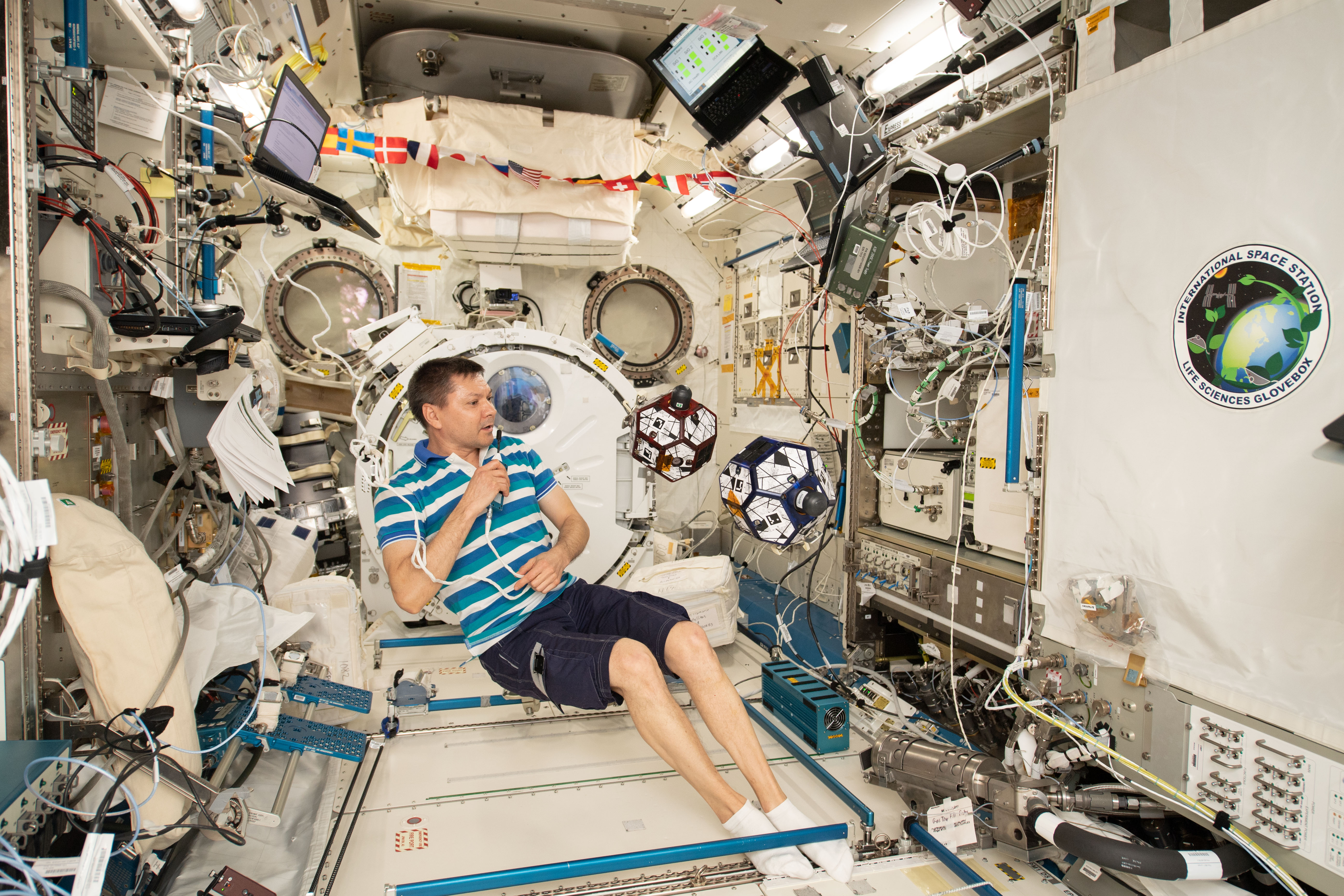 Commander Oleg Kononenko works inside the Japanese Kibo lab module monitoring a pair of tiny internal free-flying satellites known as SPHERES (Synchronized Position Hold, Engage, Reorient, Experimental Satellites). High school students compete to design the best algorithms that control the basketball-sized satellites to mimic spacecraft maneuvers and formation flying.